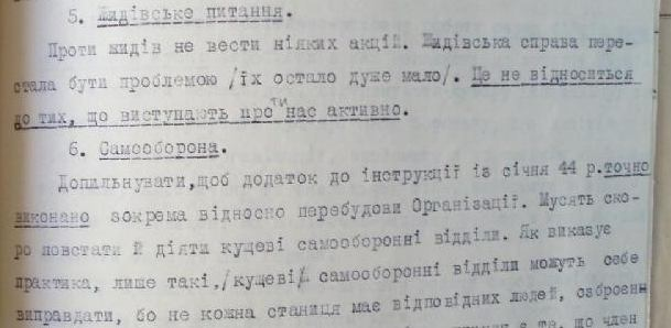 "No actions against Jews to be taken. Jewish issue is no longer a problem (only few of them remain). This does not apply to those who actively oppose against us.